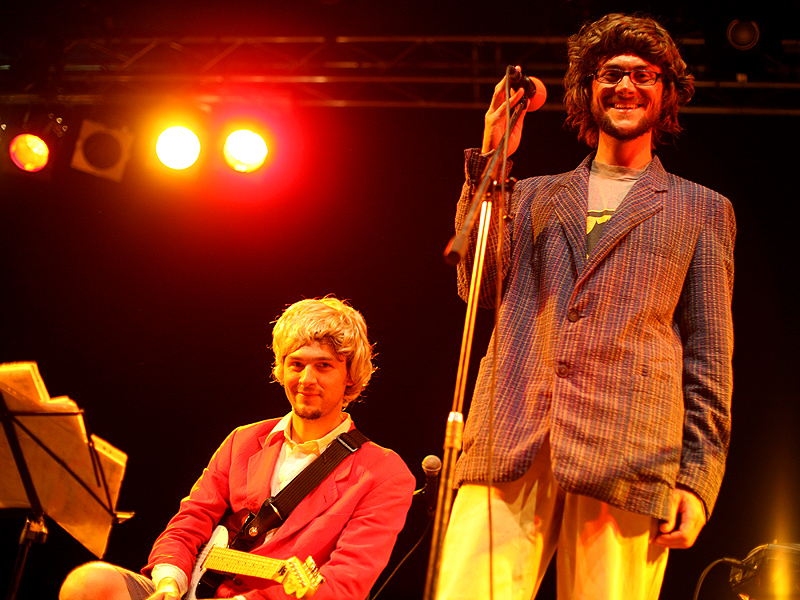 The popular band “Zärtlichkeiten mit Freunden” consisting of Ines Fleiwa (Stefan Schramm, *1979) and Cordula Zwischenfisch (Christoph Walther, *1978) playing a gig early in August 2009.